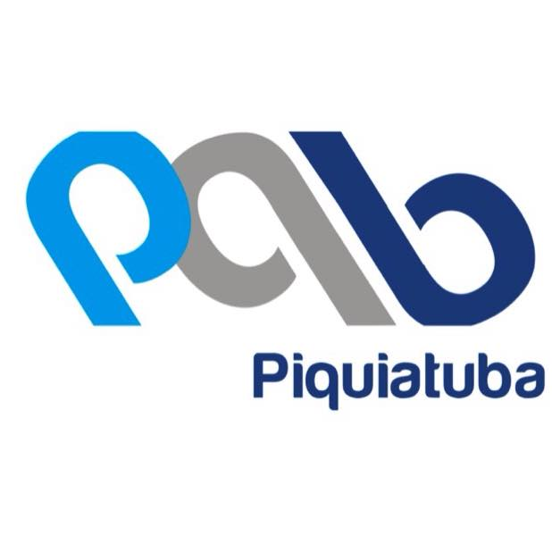 Piquiatuba logotipo